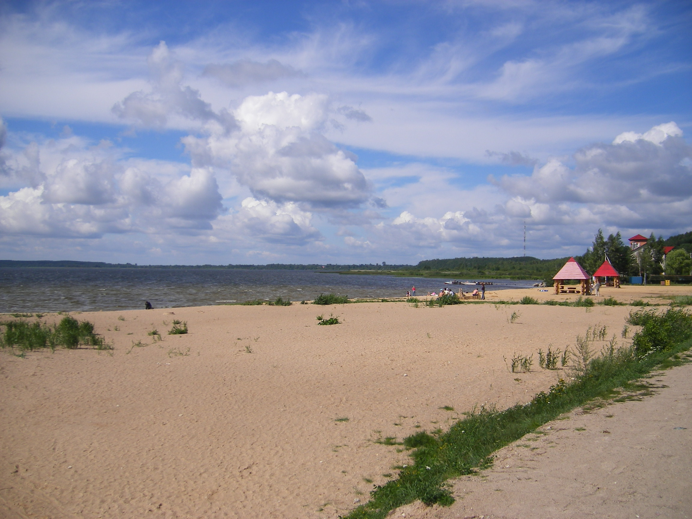 Braslav, Drivyati Lake